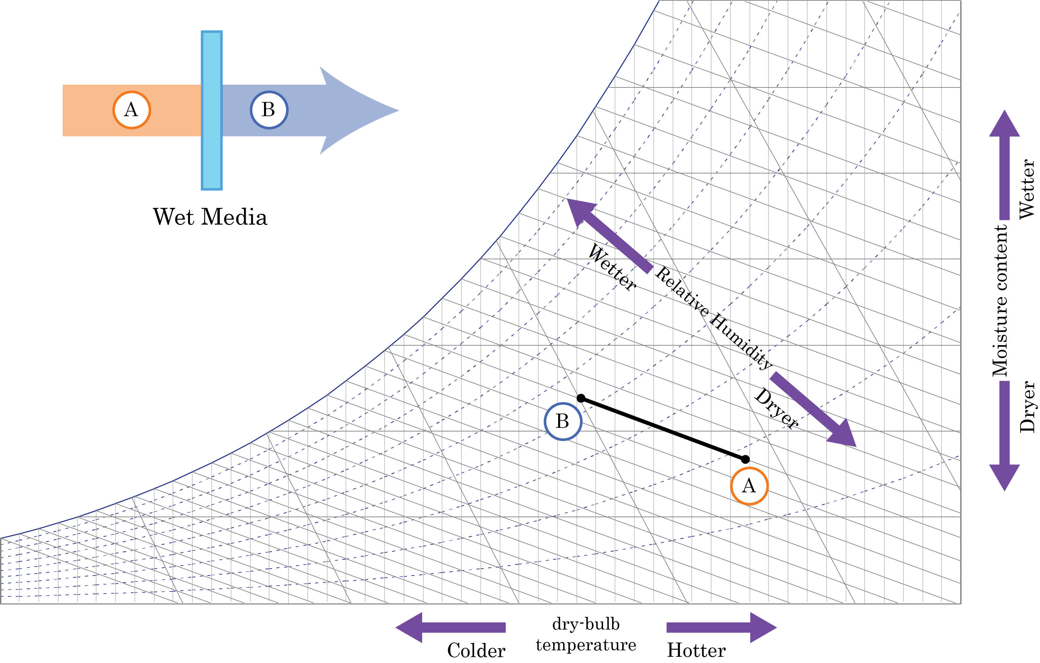 The figure describes the process of direct evaporative cooling with the changes in temperature, moisture content and relative humidity of the air